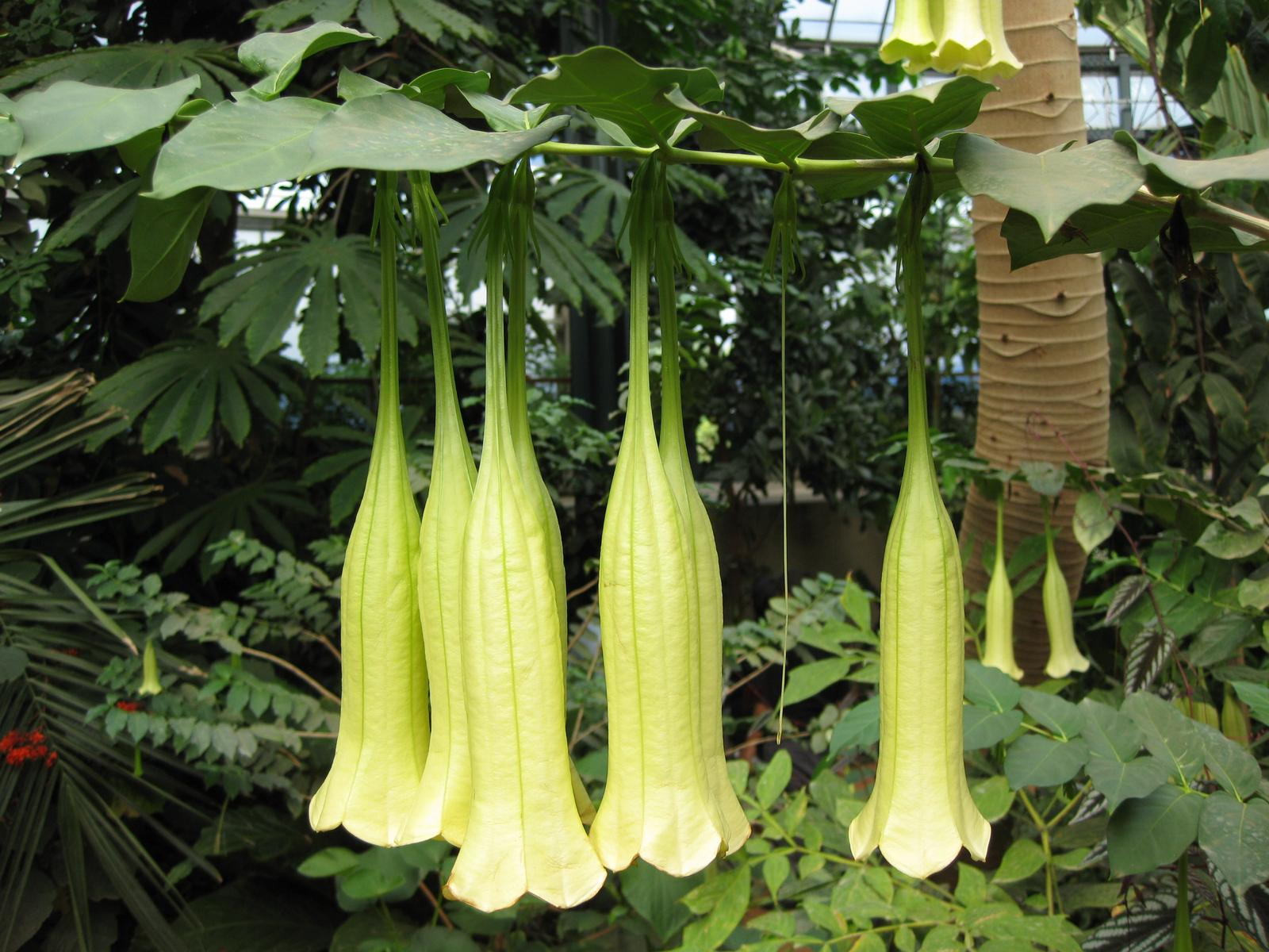 Cubanola domingensis, photographed at Huntington Gardens (Los Angeles) in September